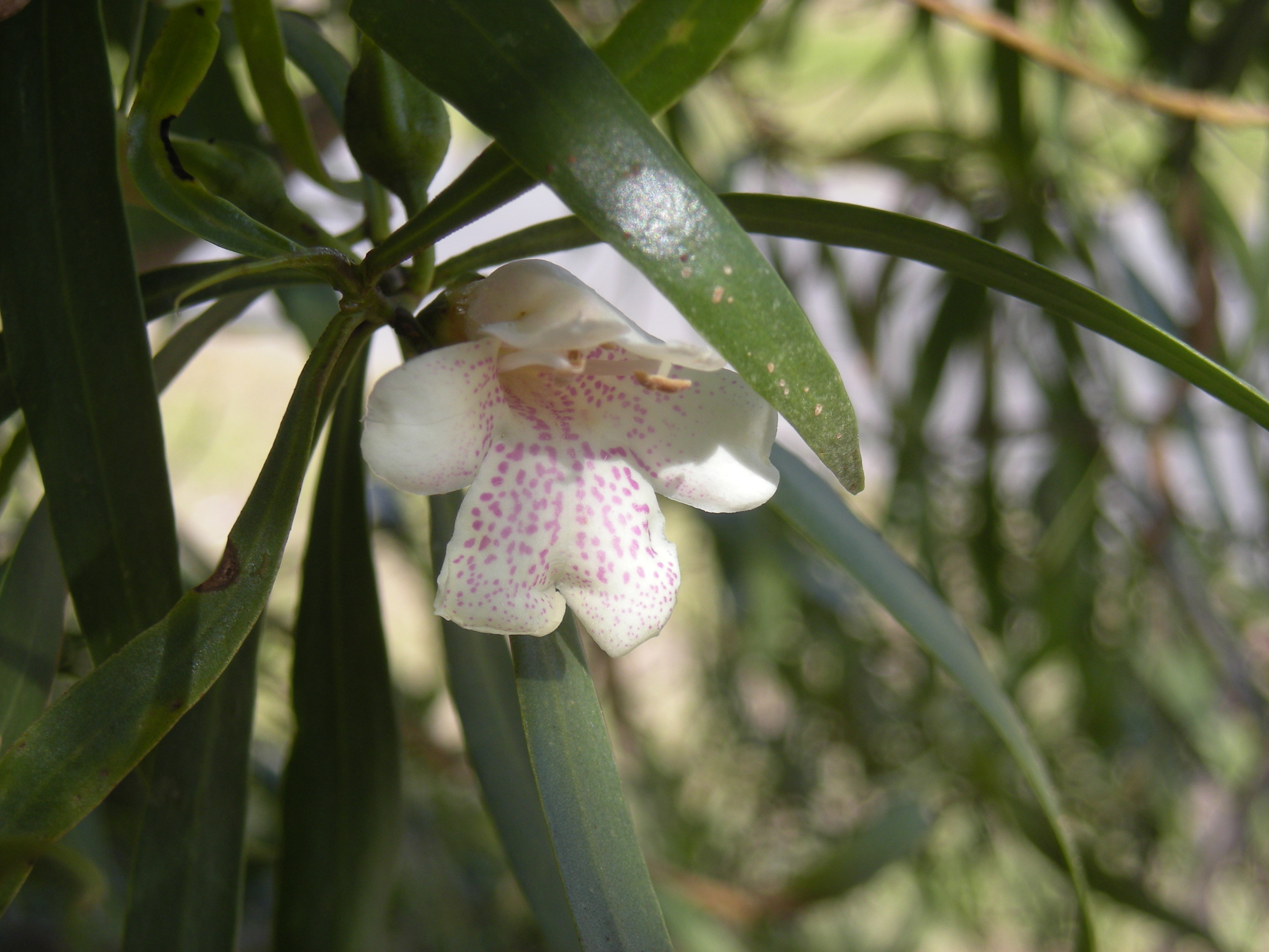 Eremophila bignoniiflora flower, softwood scrub, coastal Central Queensland